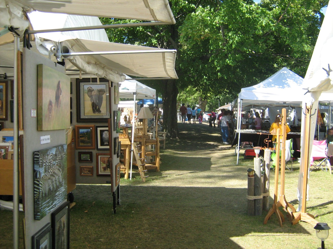 Harmony Weekend 2007, Craft Show, taken by MoodyGroove.